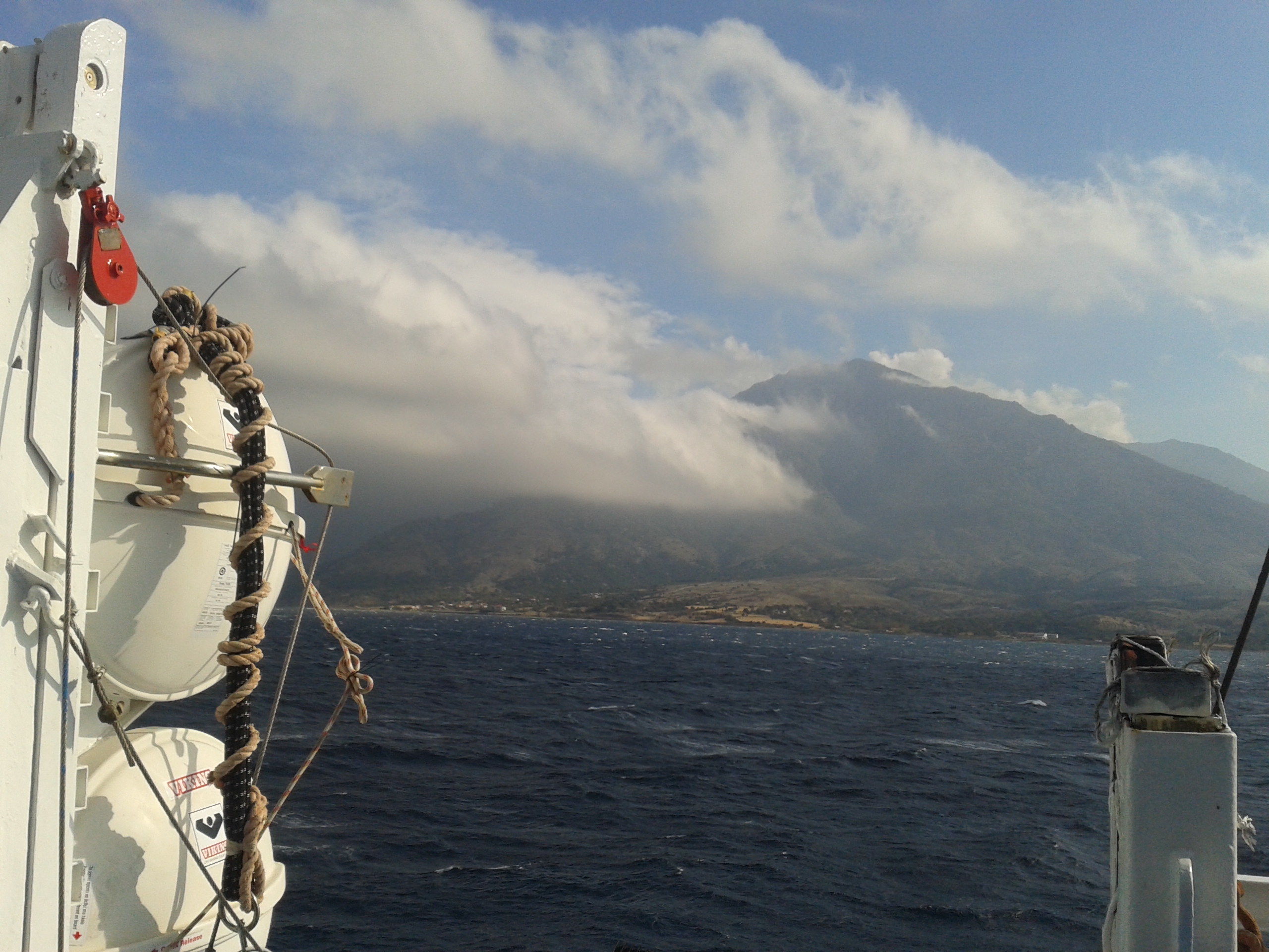 View from ferry to the Great Gods